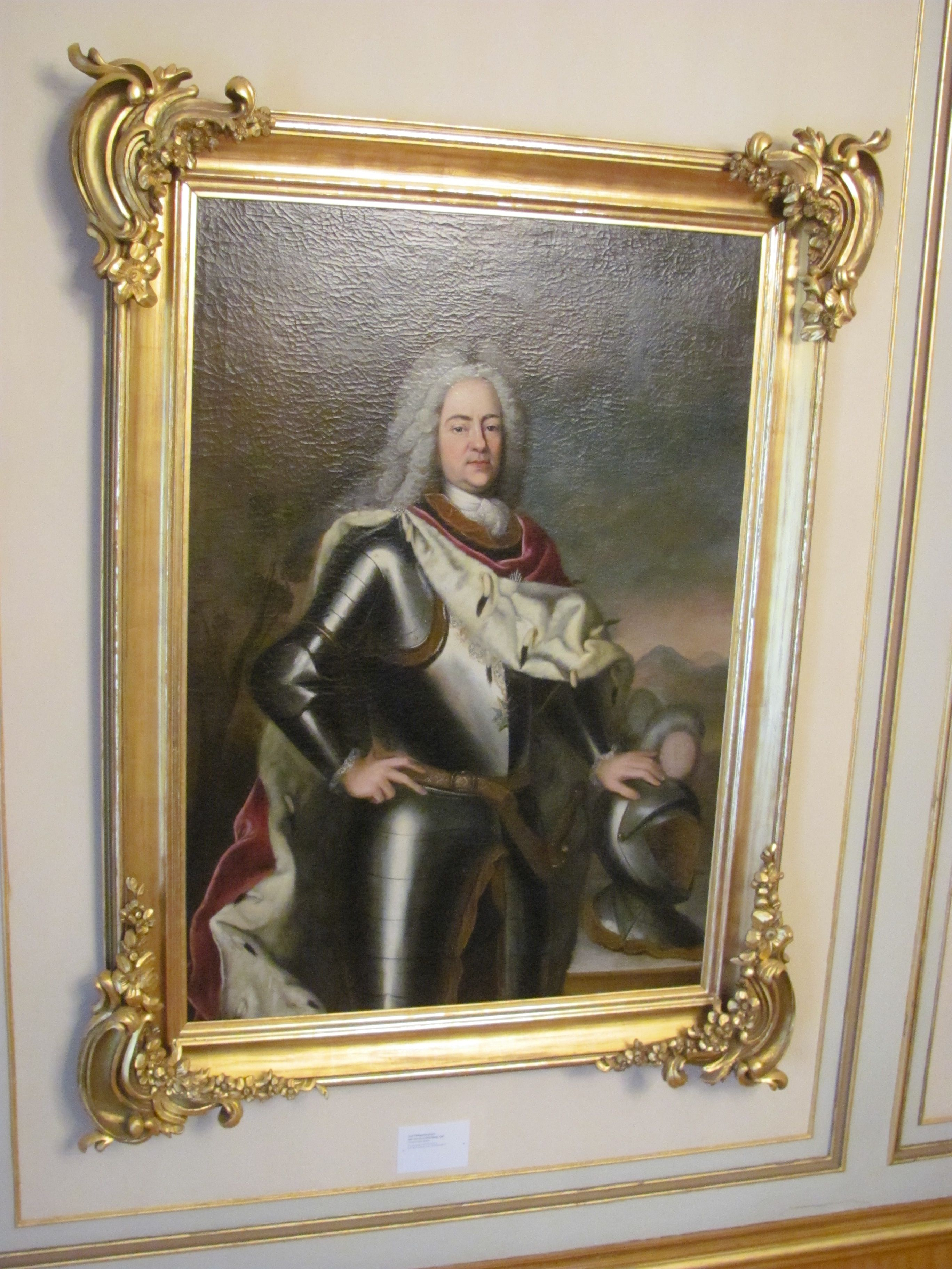 Count Philipp Reinhard von Hanau – Historisches Museum Hanau